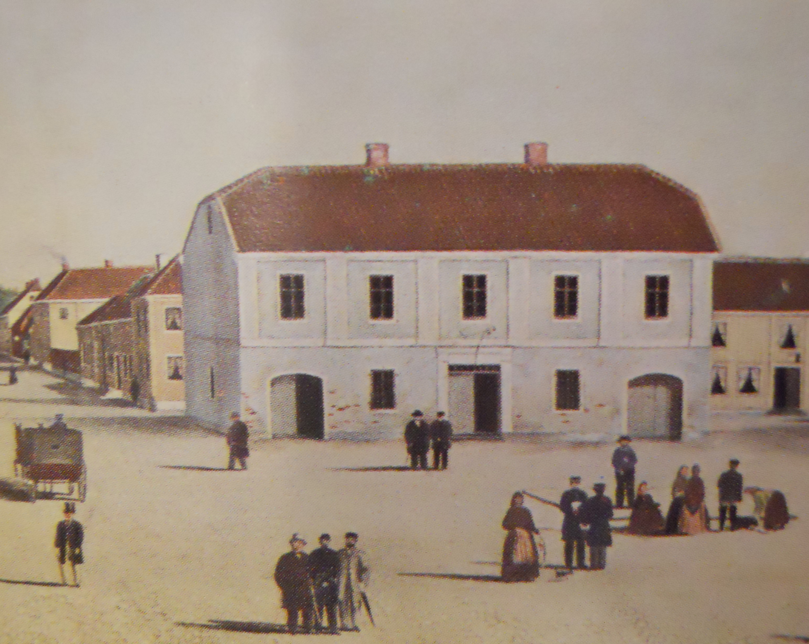 detail: Varberg City Hall. The city hall was destroyed in a fire in 1863.